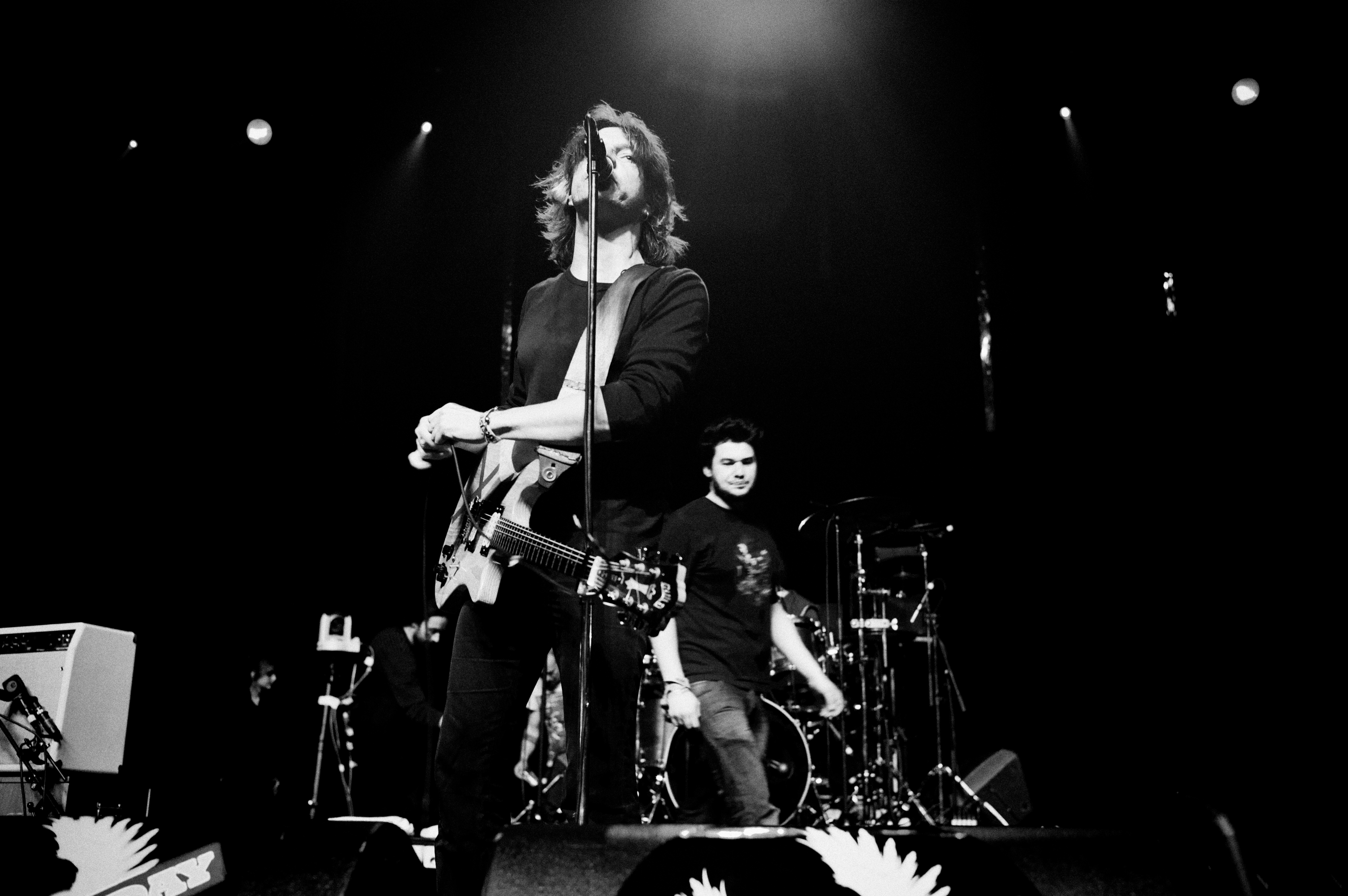 Franz Treichler of the band The Young Gods performing in 2010